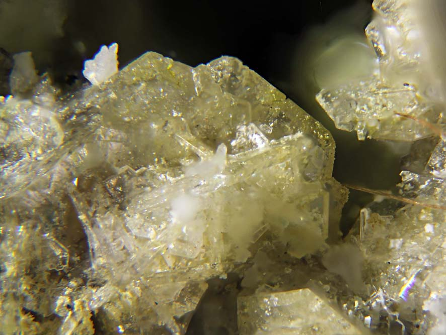 Yellowish crystals of changoite associated to hexagonal colorless caracolite in an aesthetic combination. From: Caracoles, Antofagasta Region, Chile.